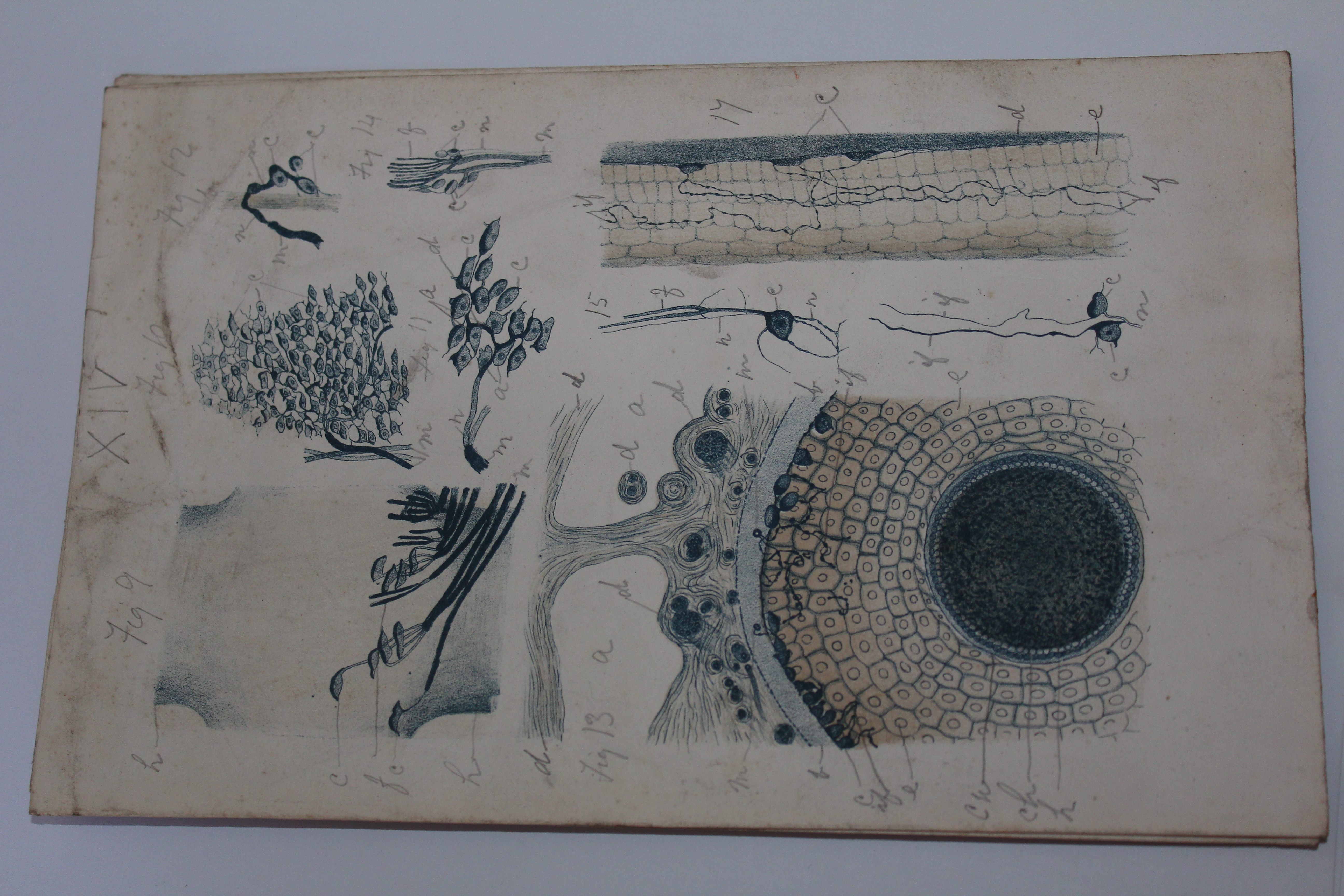 Charles robin work 3